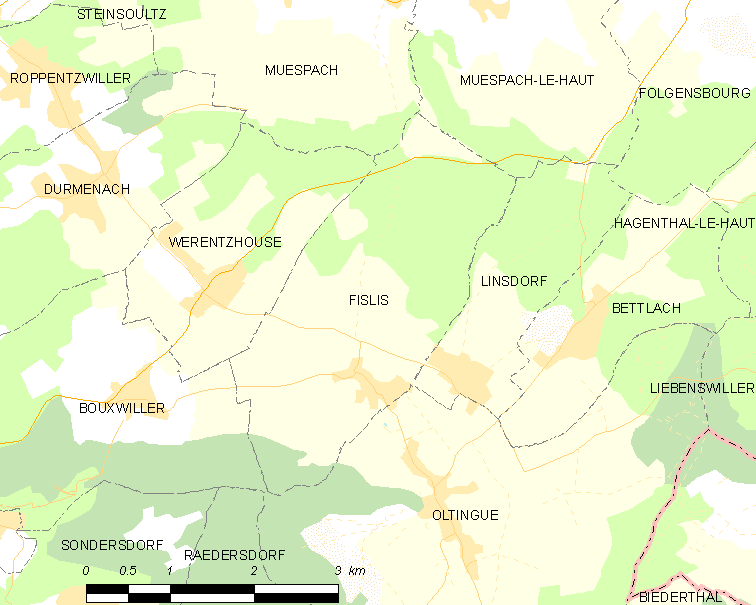 Map of French municipality